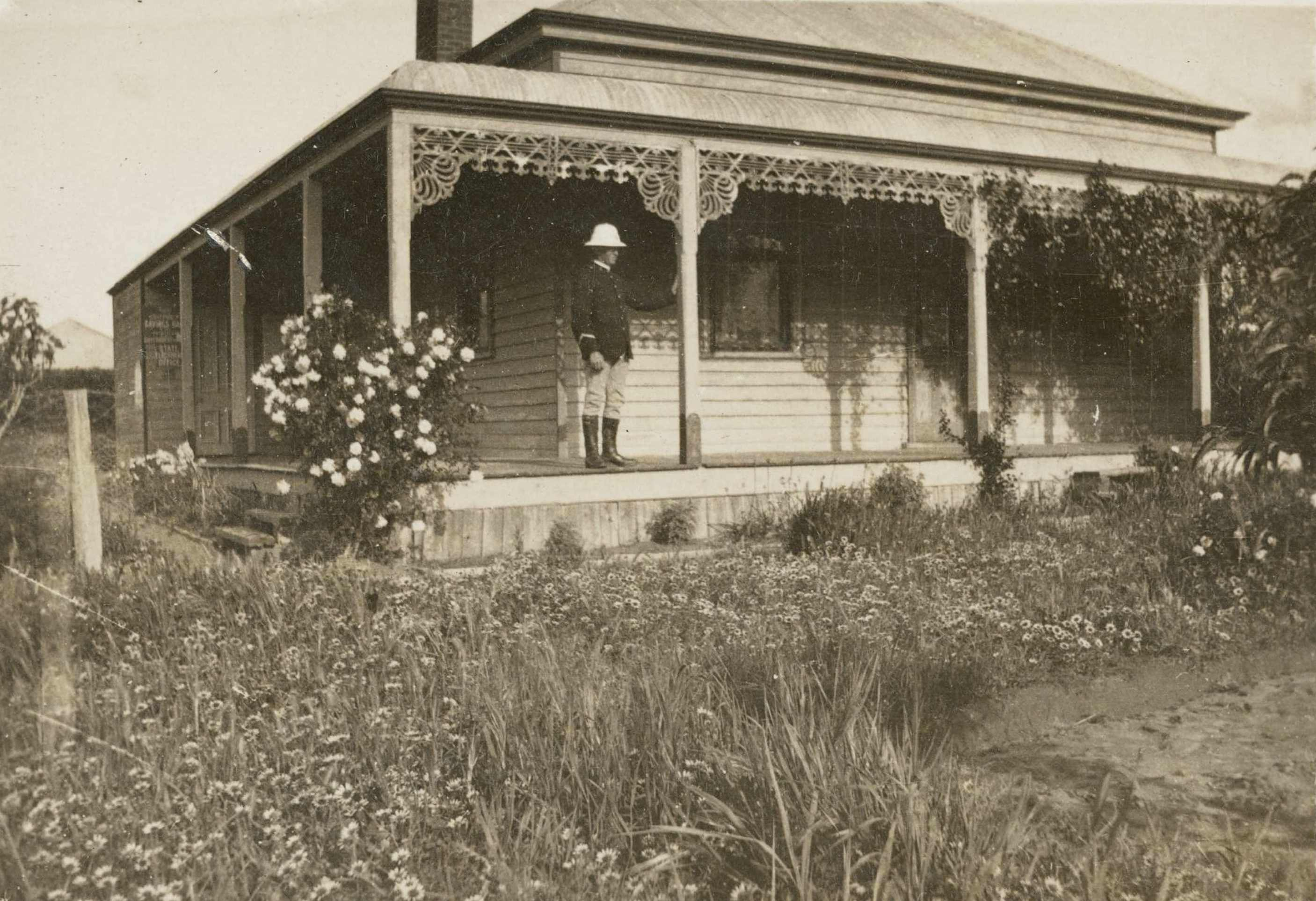 Balldale Police Station (with trooper on the verandah) , New South Wales, around 1920